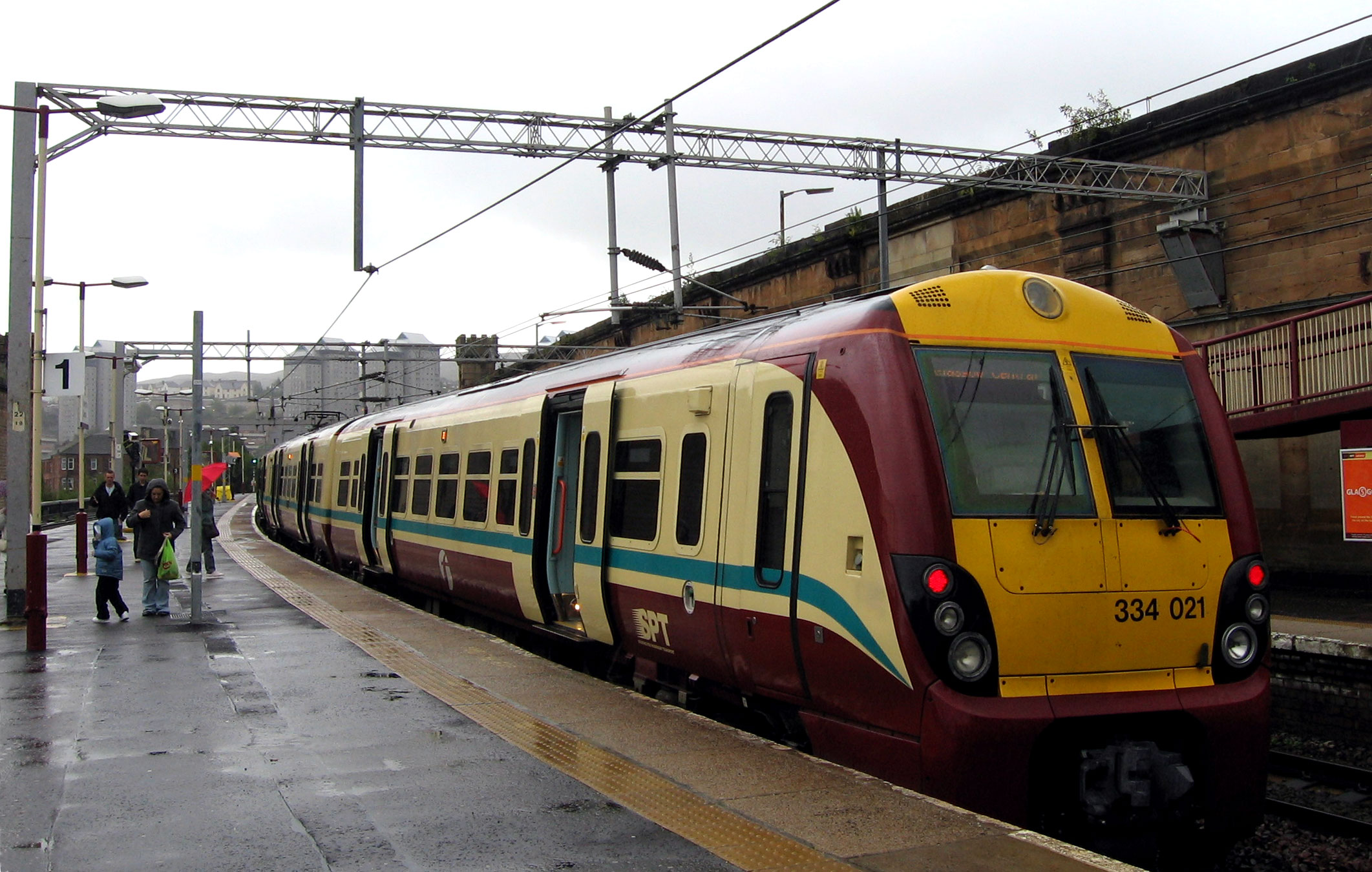 Strathclyde Partnership for Transport British Rail Class 334 train 334021 "Larkhall" at Greenock Central railway station, Creenock